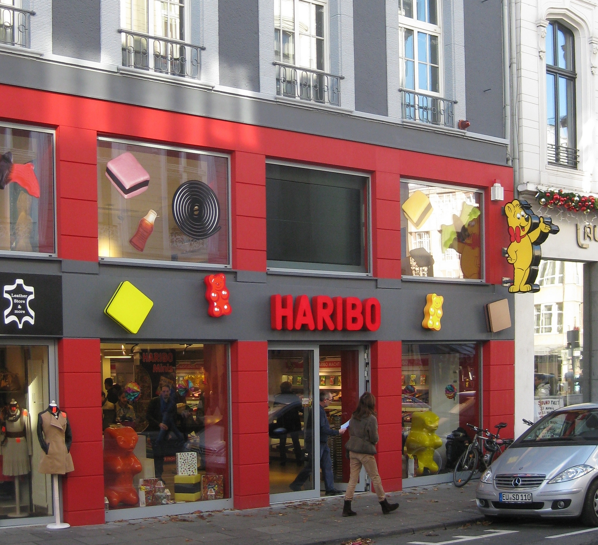 Germany, Bonn: HARIBO Store.